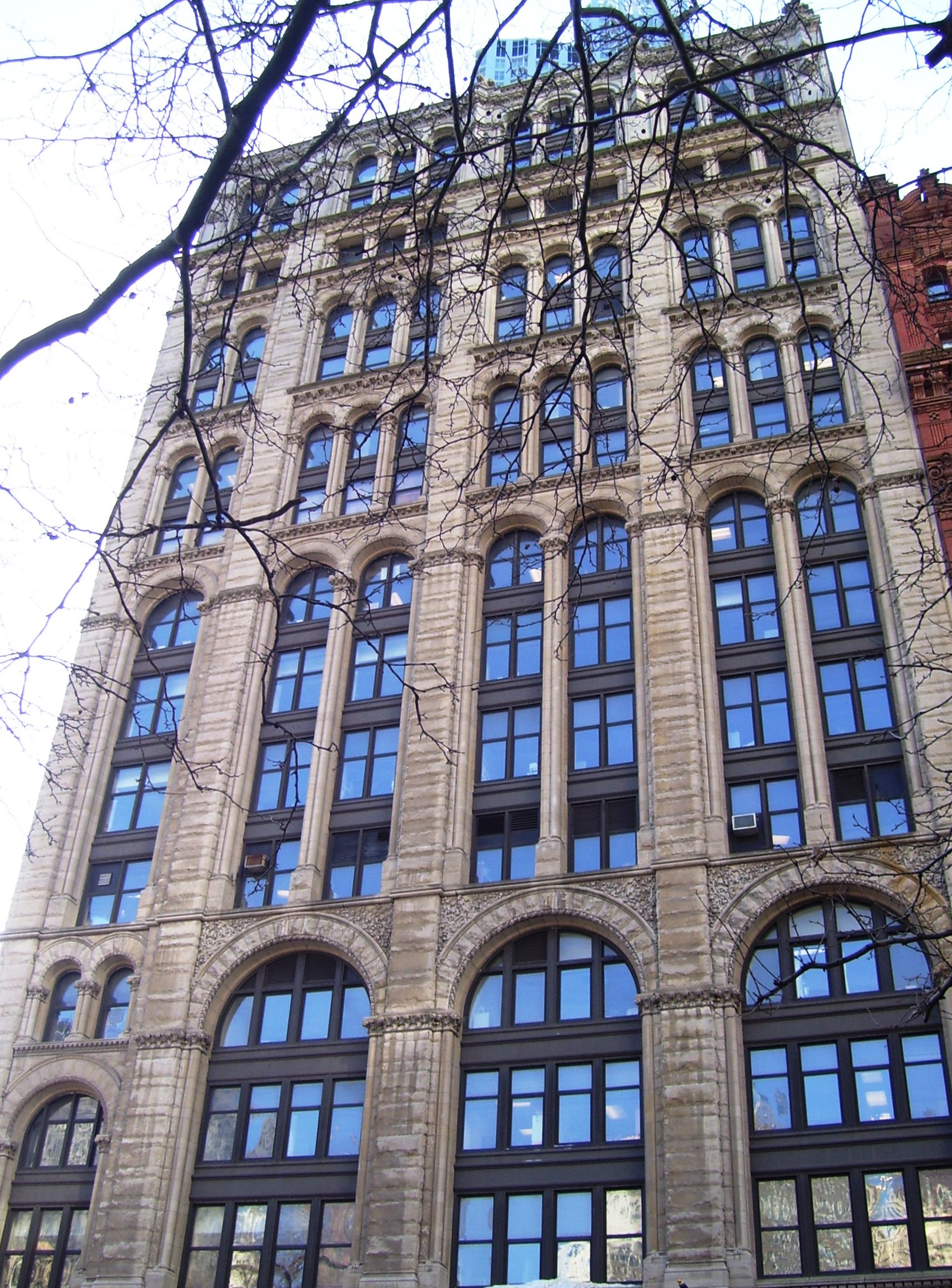 The New York Times Building at 41 Park Row at Spruce Street in the Financial District of Manhattan, New York City was built in 1888-89 and was designed by George B. Post in the Romanesque Revival style to be the headquarters of the New York Times, replacing another building on the same site. The new building was constructed around the existing press room so there would be no interruption in publication of the newspaper. The building was enlarged in 1903-1905 by Robert Maynicke, adding four stories, when the Times moved uptown and sold it. It is now owned by Pace University. (Source: Guide to NYC Landmarks (4th ed.))